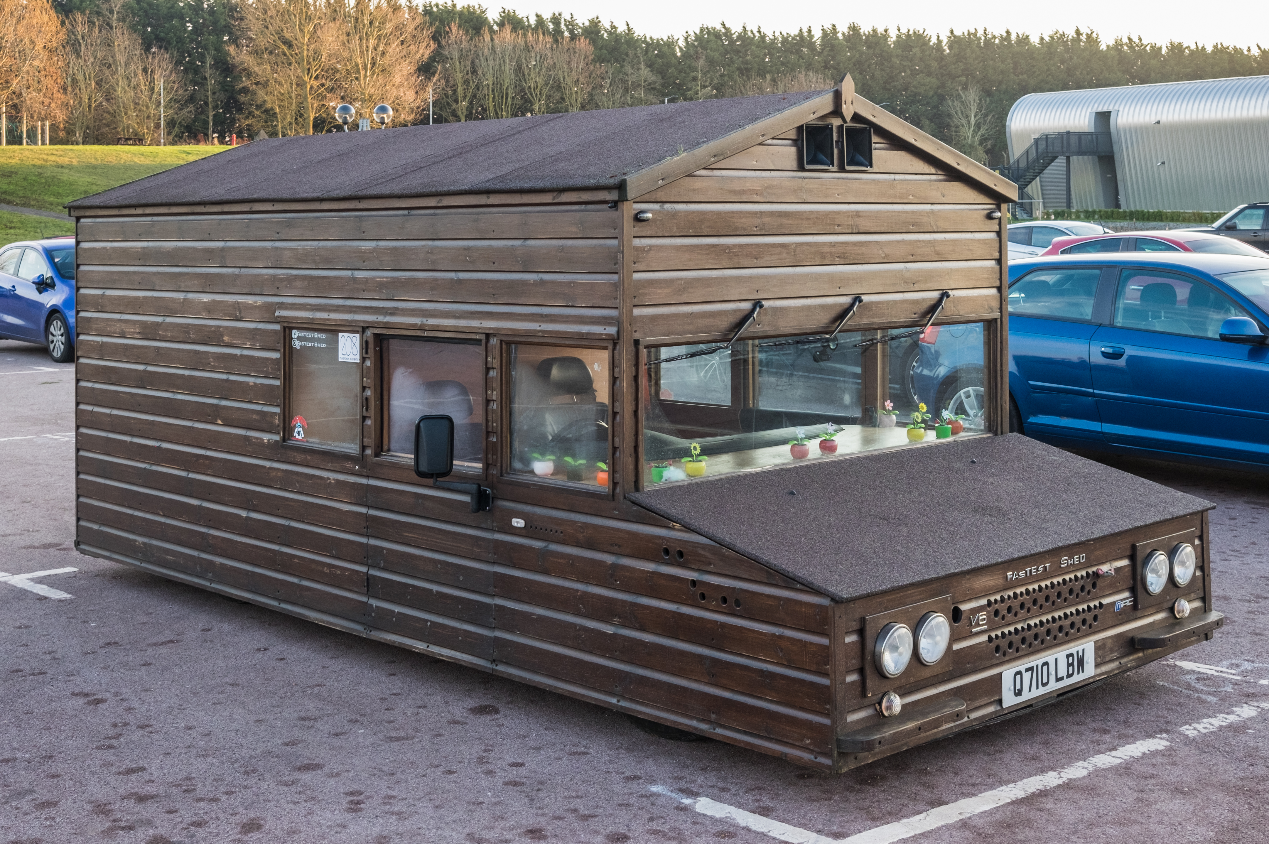 Fastest Shed, a roadworthy shed, a hand-built conversion of a Volkswagen Passat.